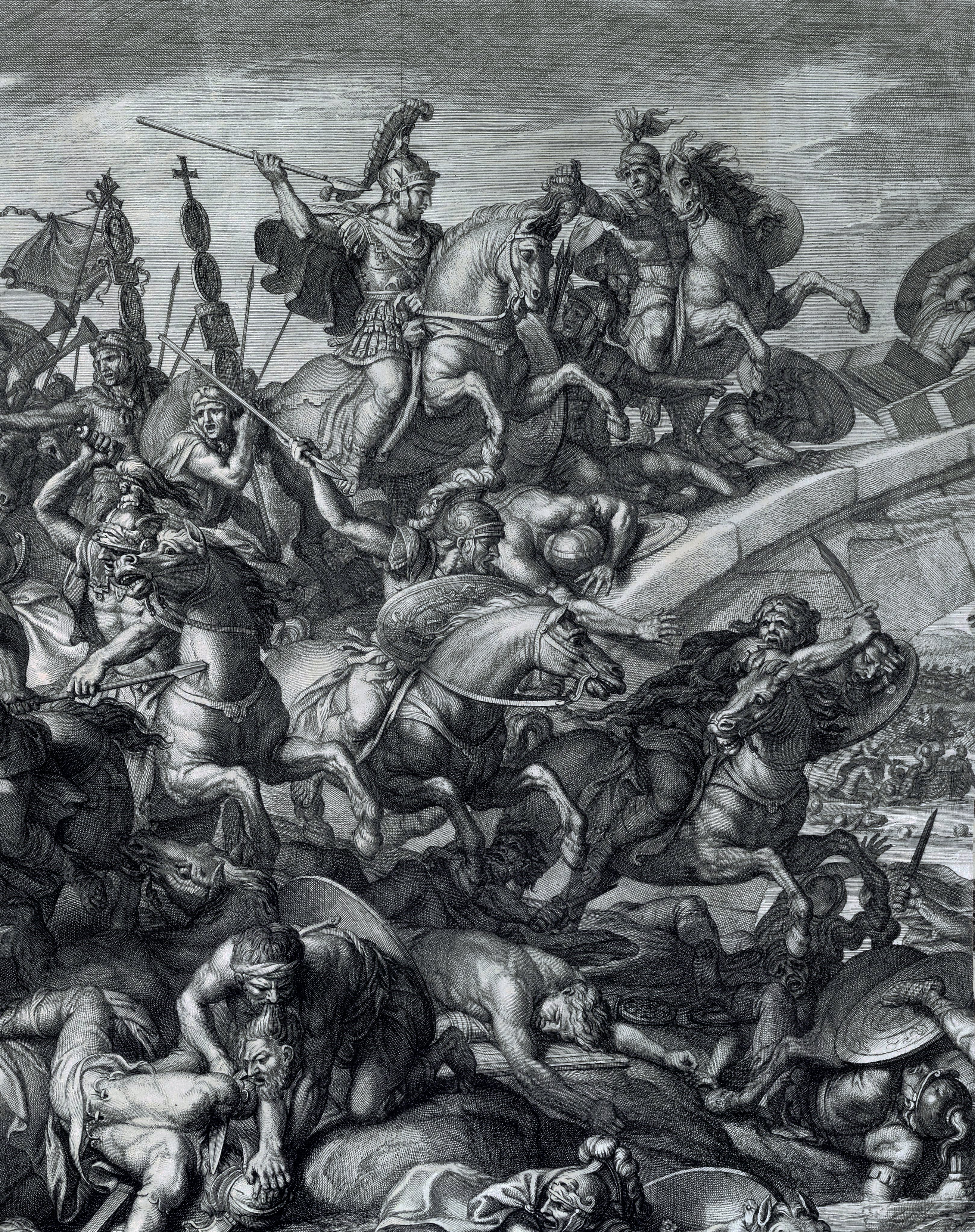 Center crop of The Battle at the Milvian Bridge, after an unfinished painting by Le Brun, was meant to prove he had surpassed the famous version designed by Raphael for the Vatican in the early 16th century.